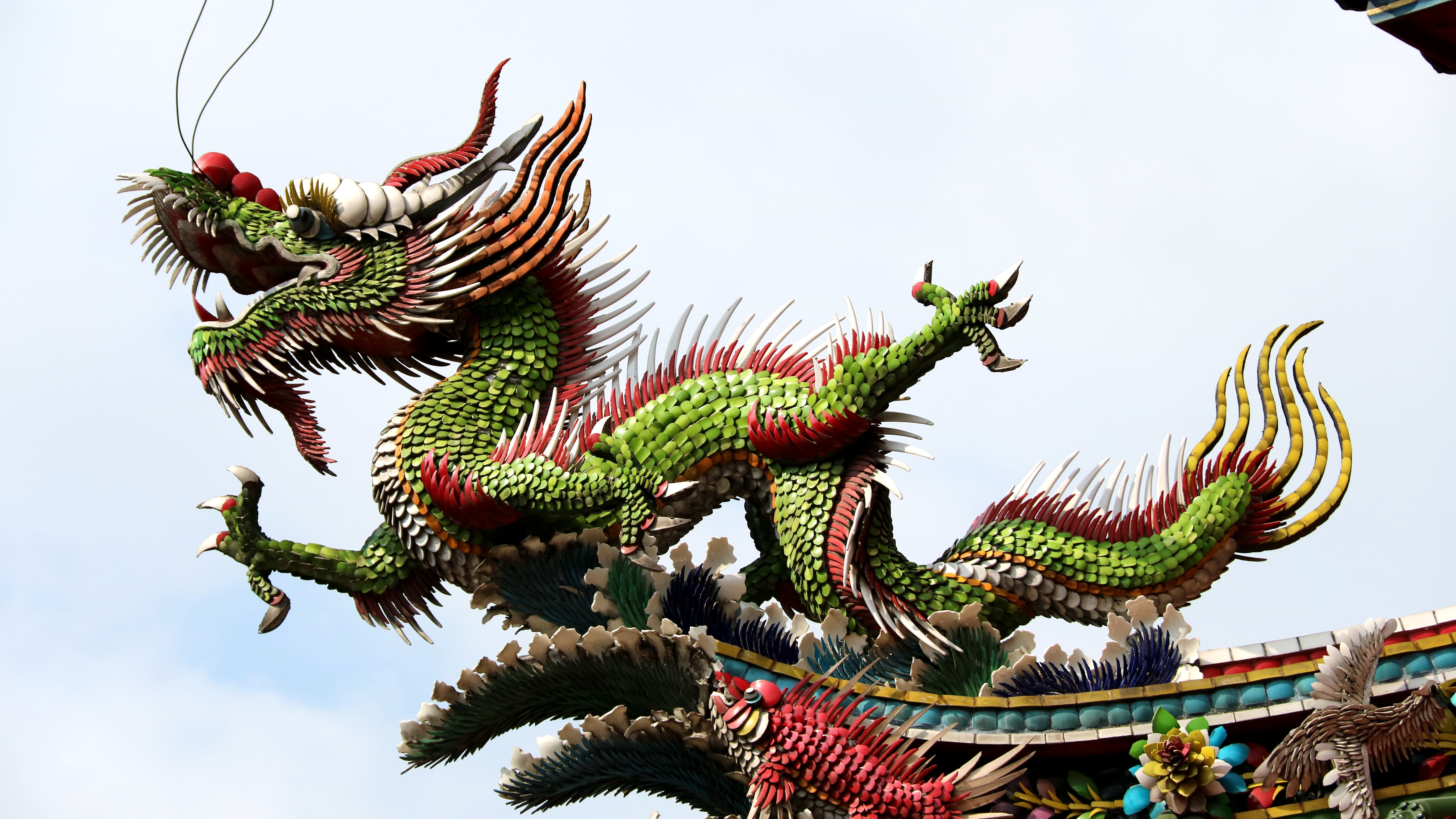 Temple rooftop dragon statue in Taiwan.